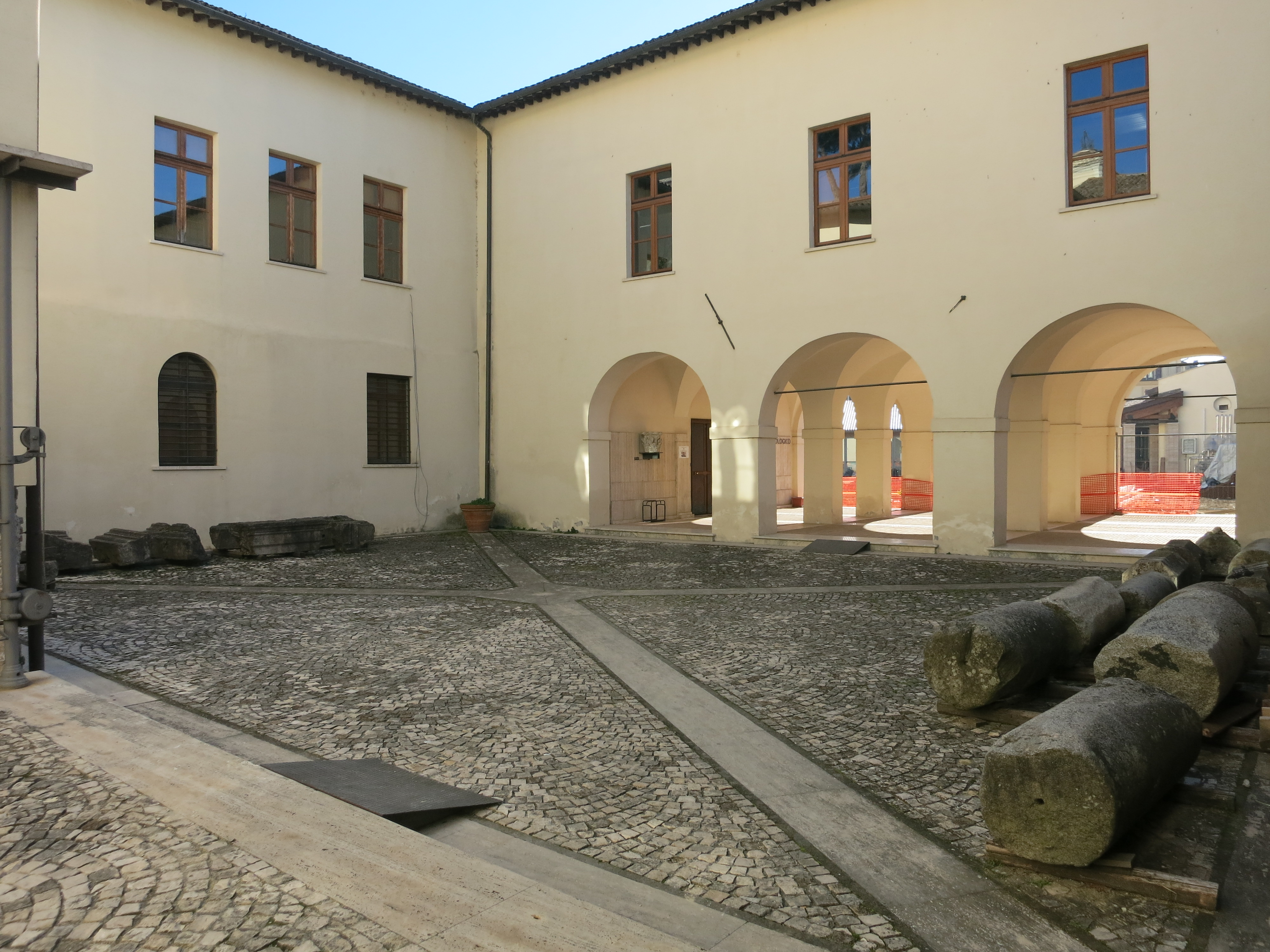 Entrance to the archaeological section of Civic Museum, in the former monastery of Santa Lucia - Rieti (Lazio, Italy)